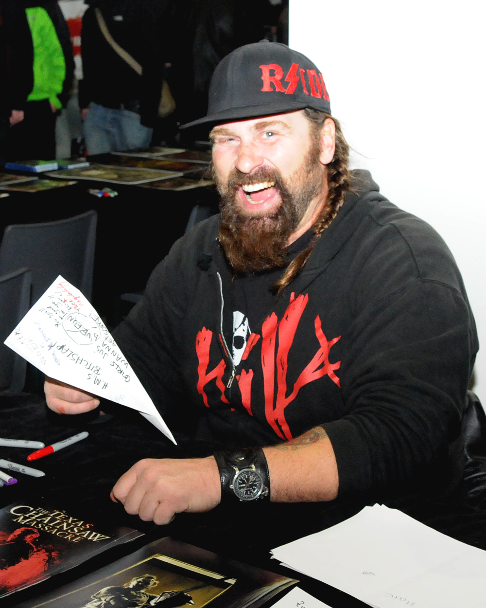 Andrew Bryniarski @ Weekend Of Horrors 11 - Turbinenhalle Oberhausen, Germany 2013